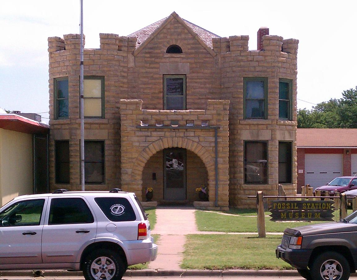 The Fossil Station Museum in Russell, Kansas